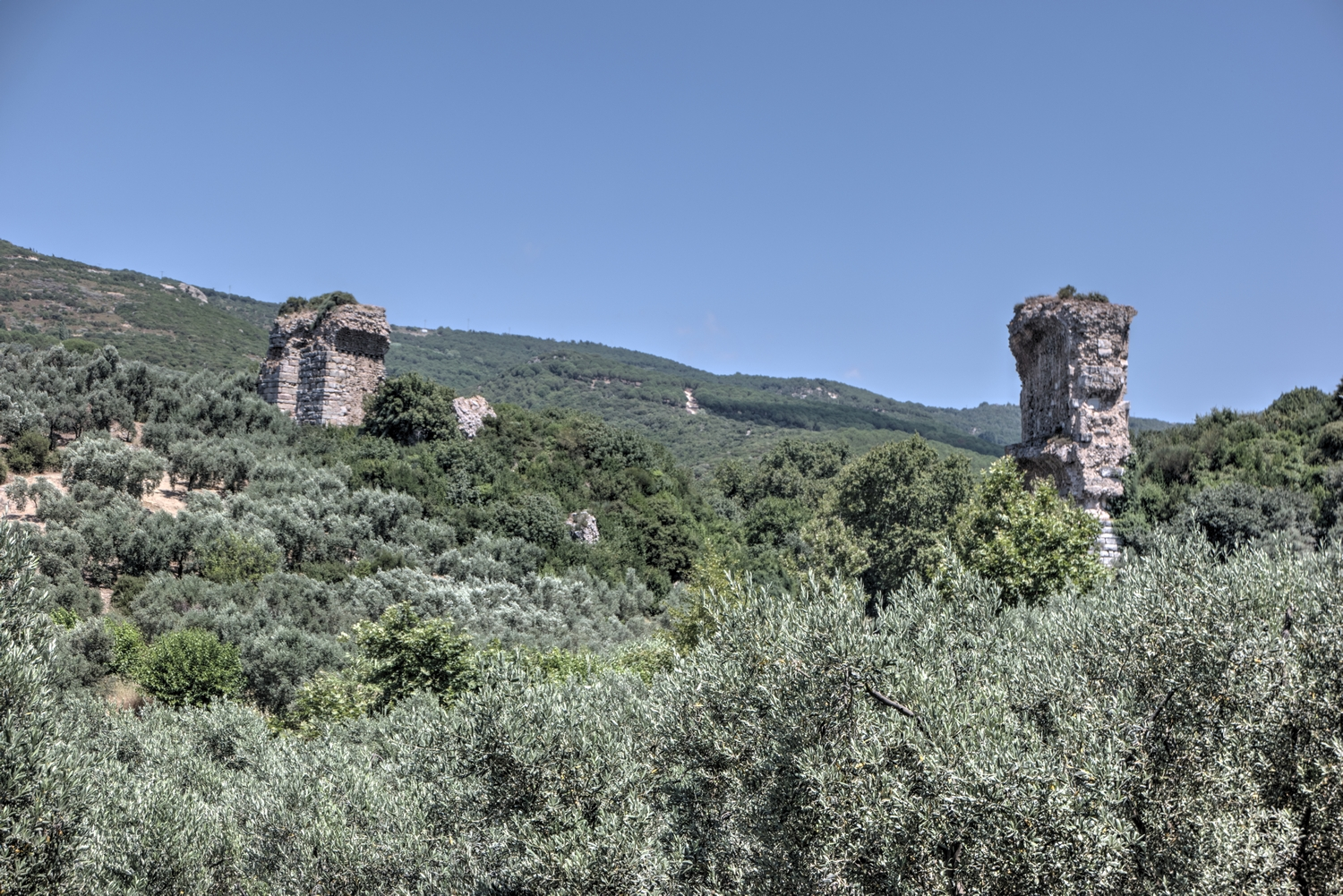 Cyzicus amphitheatre